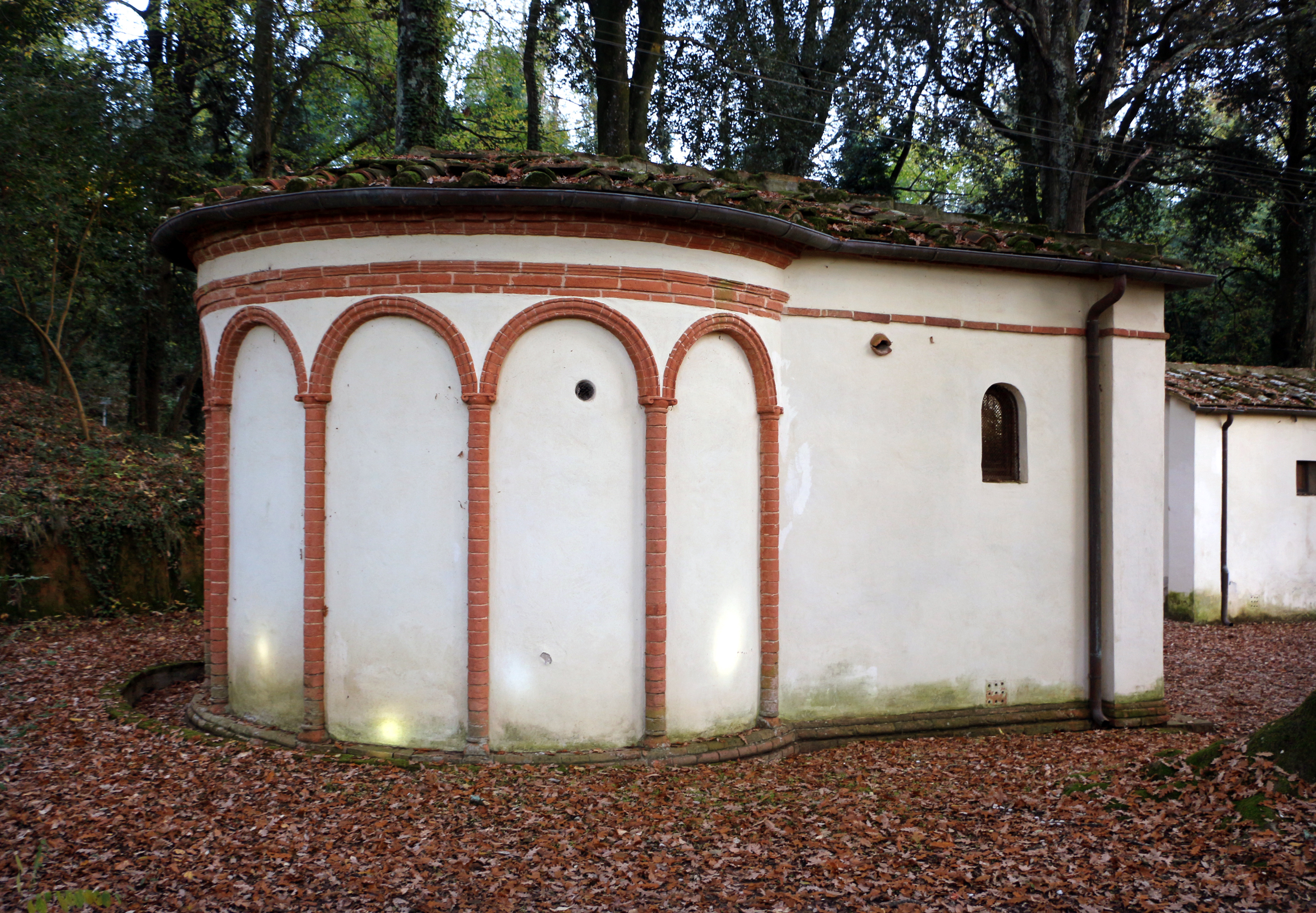 San Vivaldo Sacro Monte